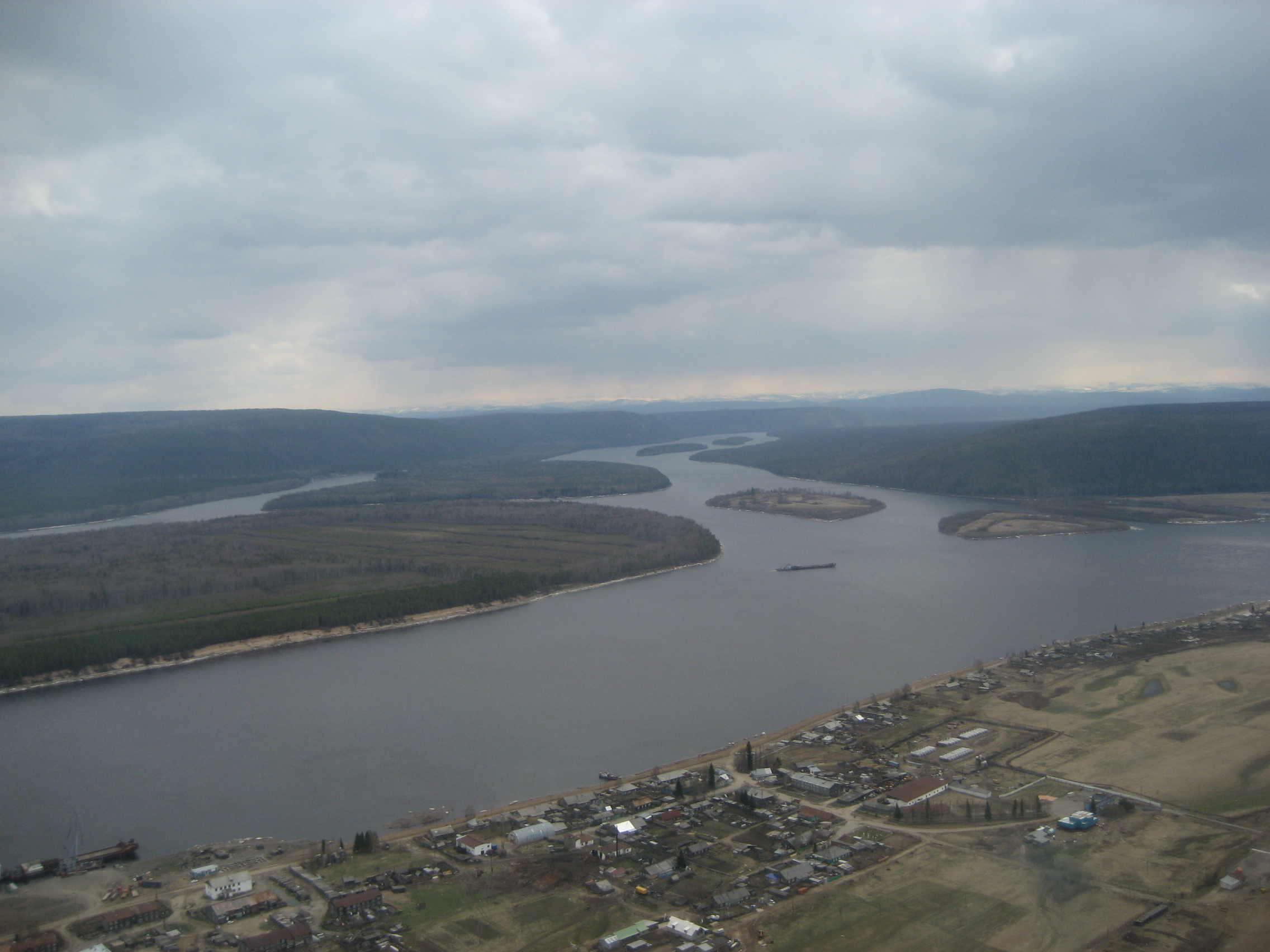 View of Vitim (Sakha, Siberia, on the River Lena)